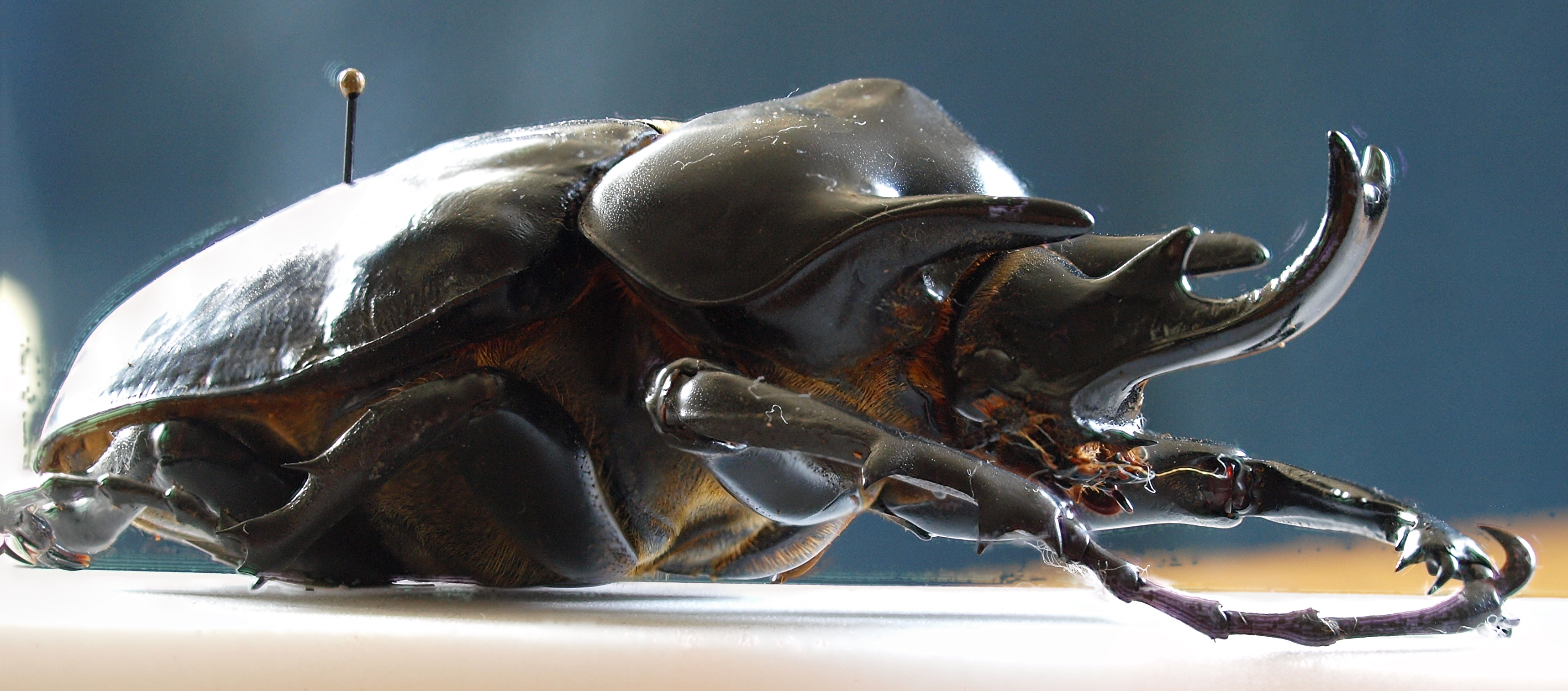 Megasoma actaeon, male, stacked image. Source: own collection